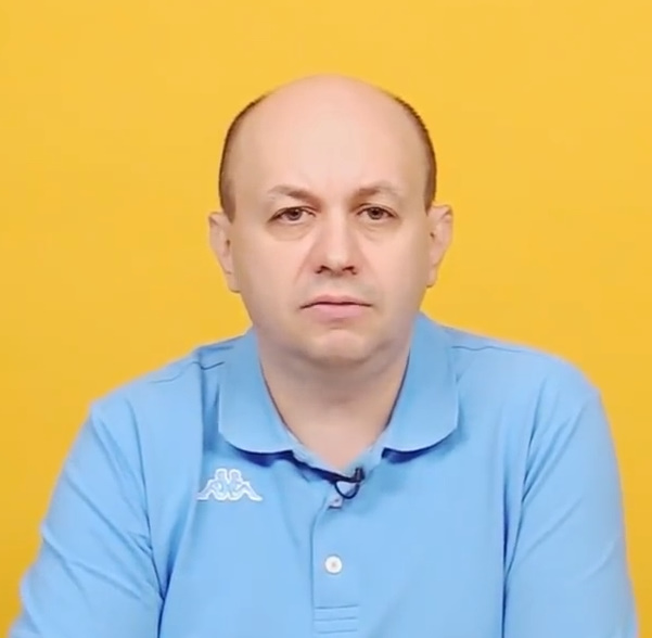 Editor-in-chief of Mediazona Sergey Smirnov at his Navalny LIVE program It Will Be Worse #23